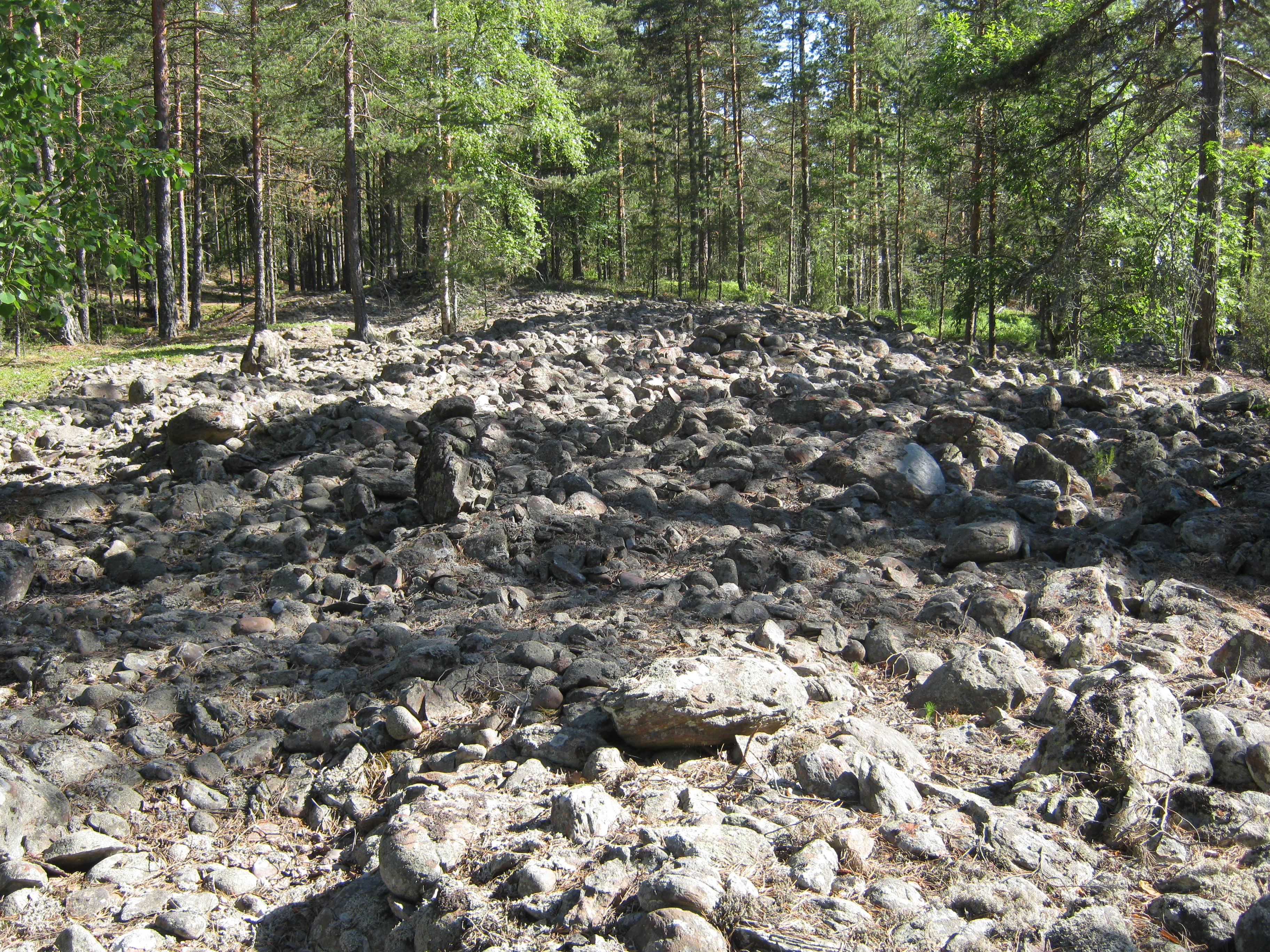 An exposed boulder field created by Littorina Sea (~3,000 B.C.) at Hiittenharju, Harjavalta, Finland.